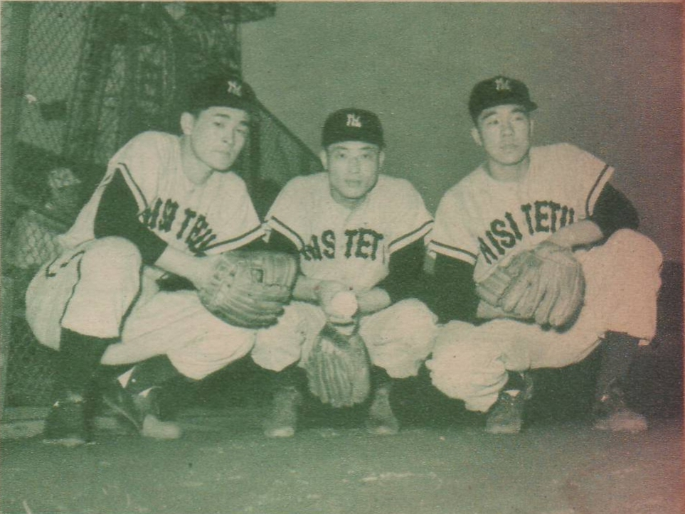 Three pitchers of Nishitetsu Lions. Takayuki Hata (left), Yukio Shimabara (center), Kazuhisa Inao (right). taken in 1956.